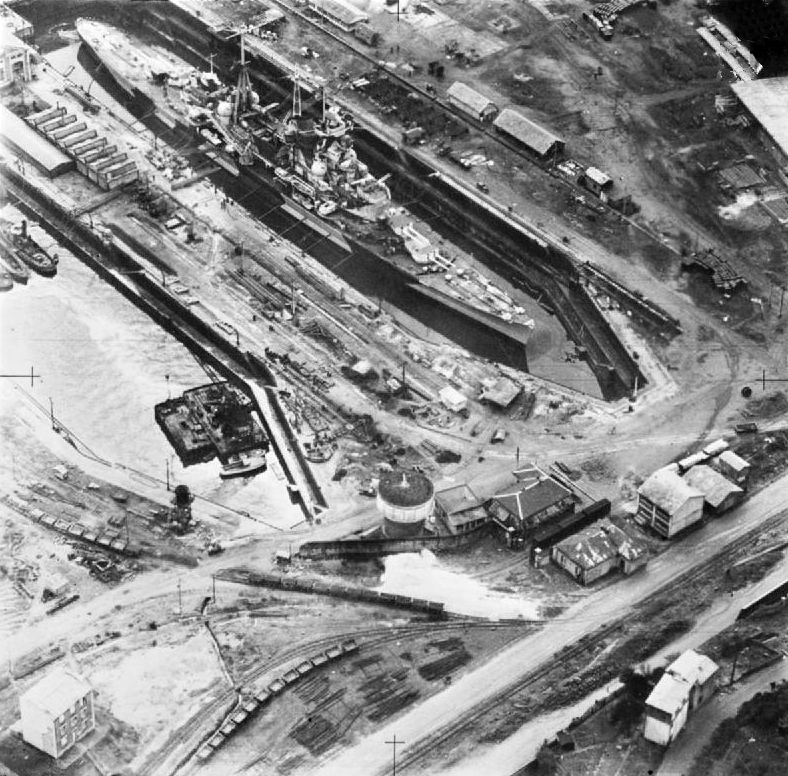 Low-level oblique photographic-reconnaissance aerial of the German heavy cruiser Admiral Hipper in dry dock at Brest, France. Obtained on a 'dicing' sortie by a Supermarine Spitfire PR Mark IG of No. 1 Photographic Reconnaissance Unit Detachment flying from St Eval, Cornwall.